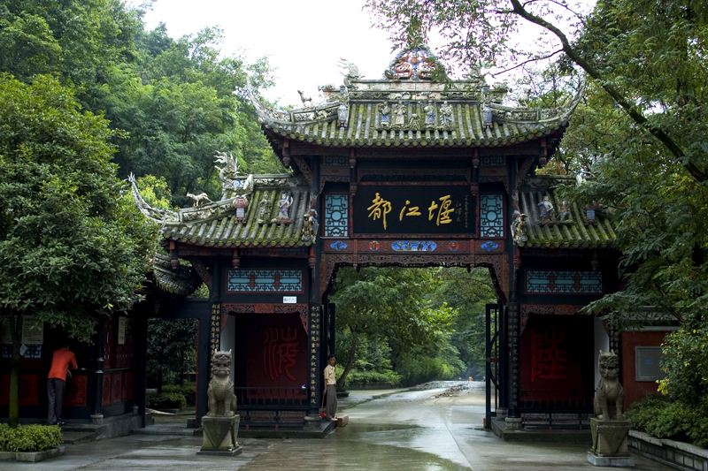 Entrance to Du Jiang Yan